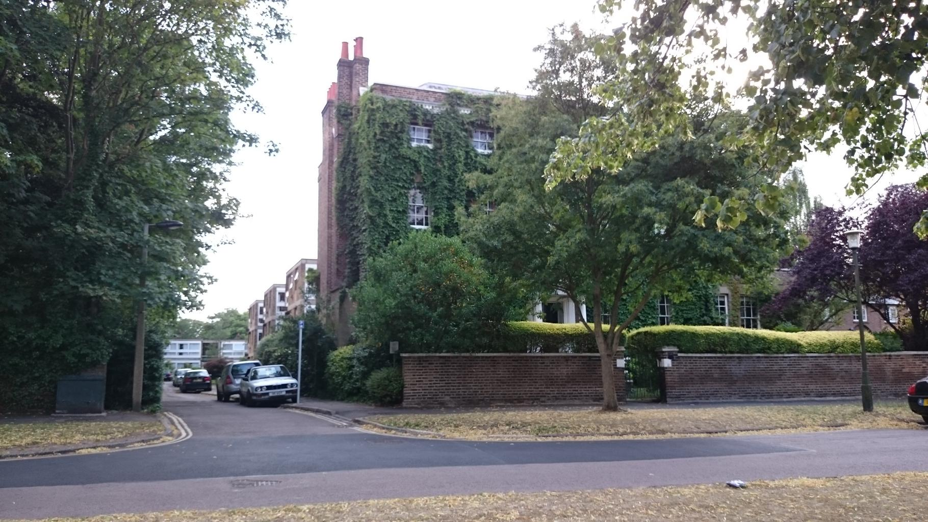 Langham House, built about 1709, on Ham Street, Ham Common.